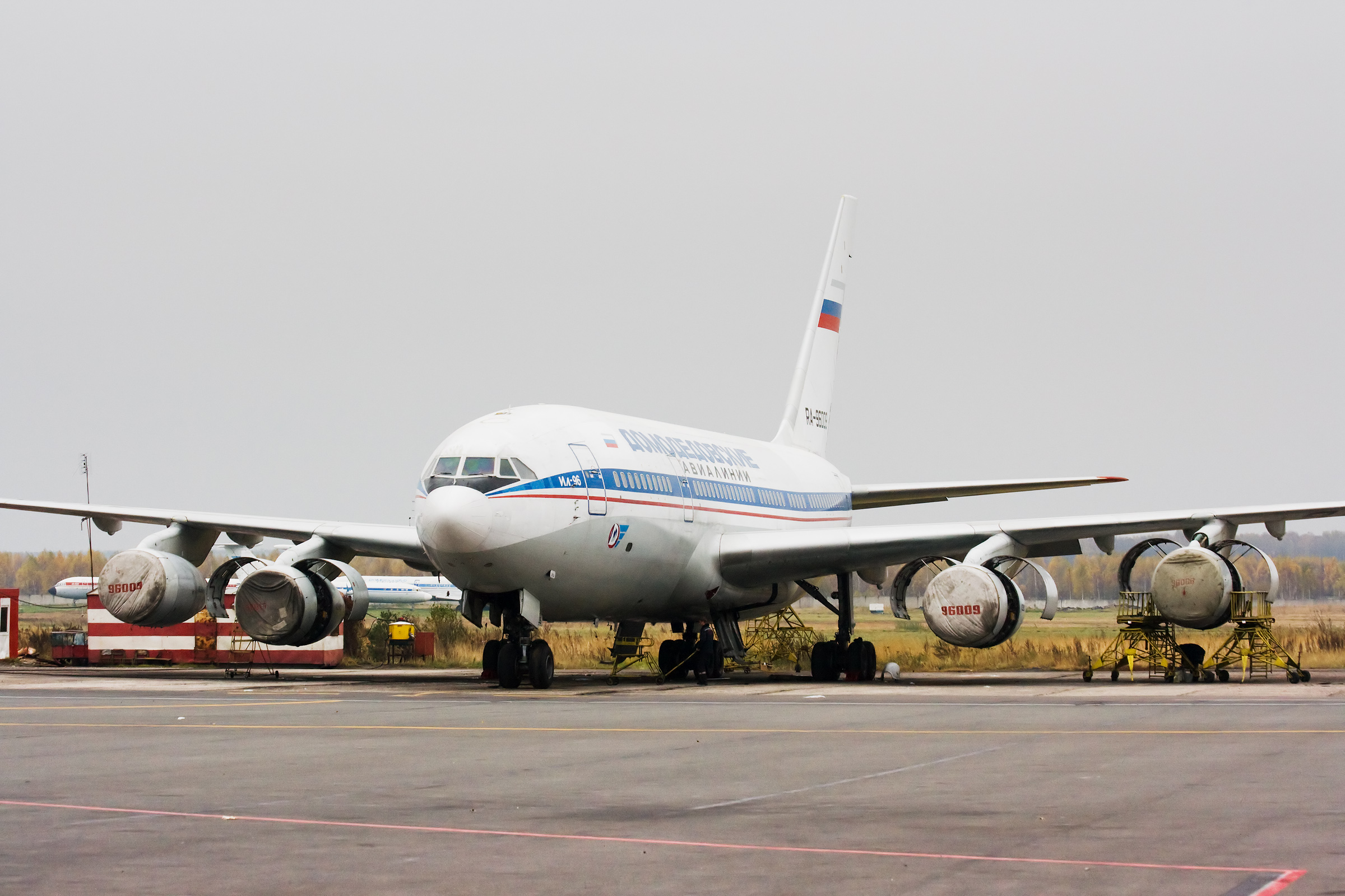 Domodedovo airlines Il-96